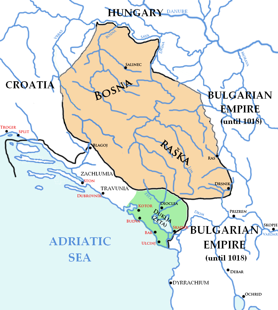 Serbian lands in 10th and 11th century accoding to Serbian sources, internationally not recognized. Bosnia was not part of Serbia.